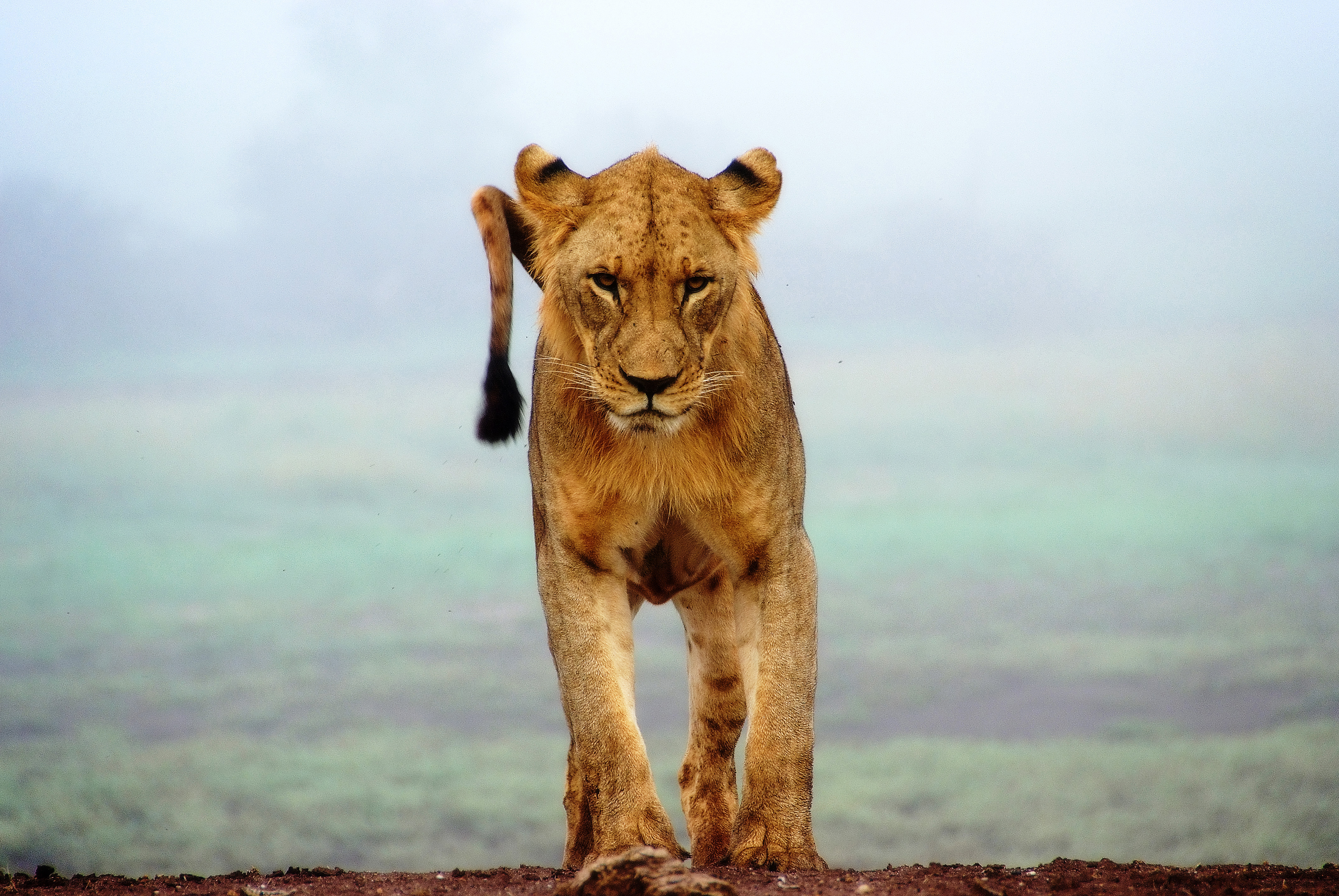 Lion in Tsavo West national park, Kenya.